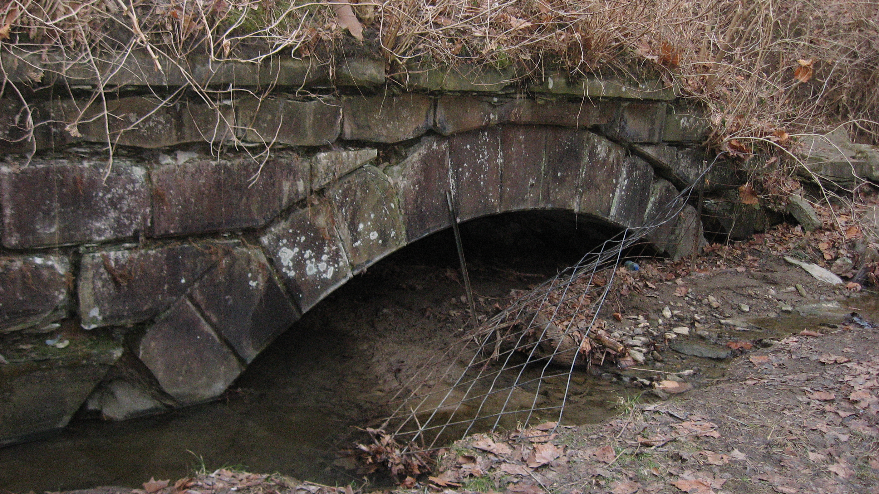 Northern end of the Cincinnati and Whitewater Canal Tunnel, located west of the intersection of Miami and Ridge Avenues in Cleves, Ohio, United States. Built in 1837, the tunnel is listed on the National Register of Historic Places.